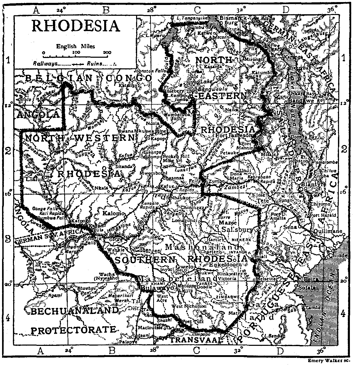 Illustration from 1911 Encyclopædia Britannica, article RHODESIA.